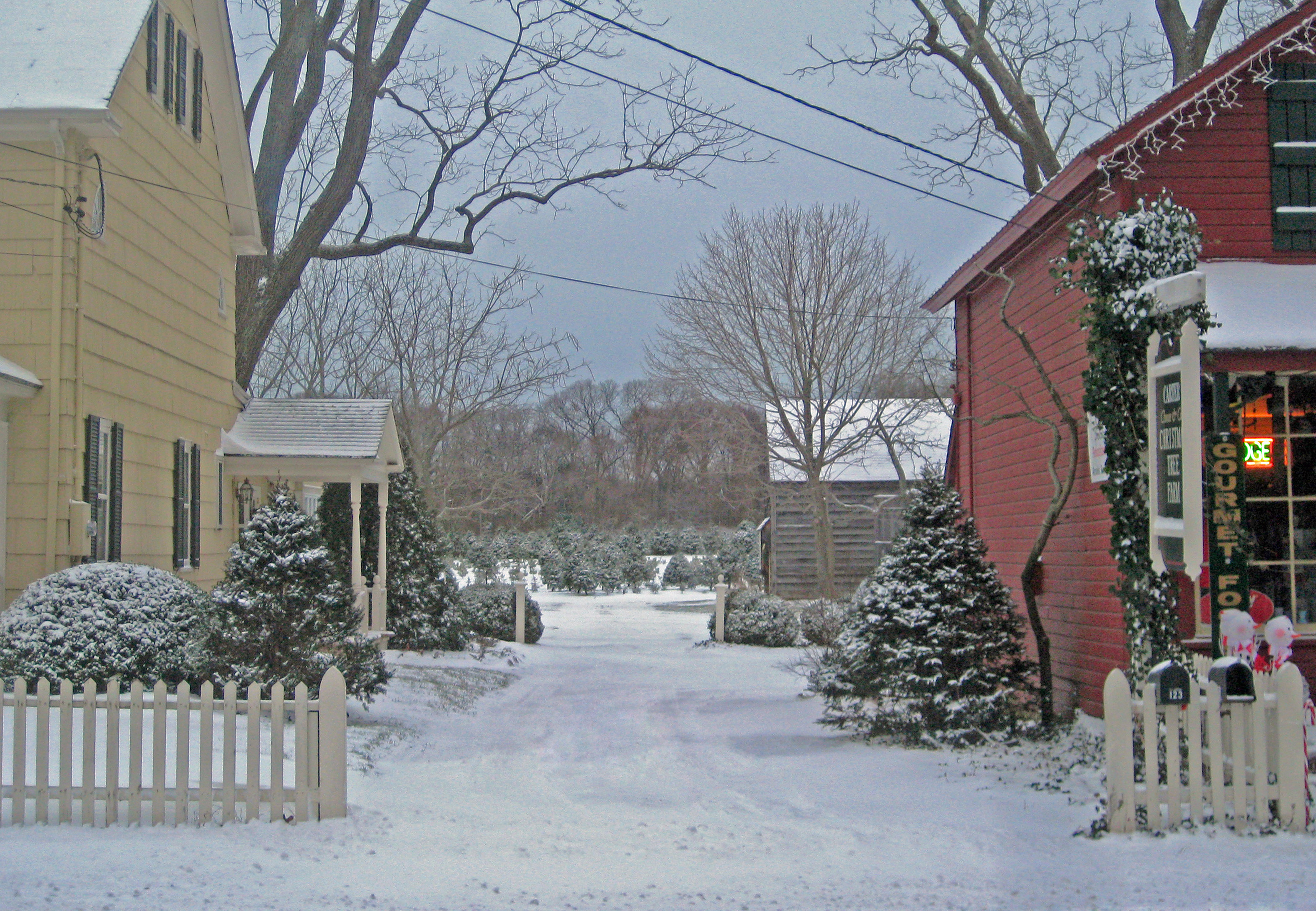 The driveway to a tree farm next to the Miller Place Country General Store, part of the Miller Place Historic District.